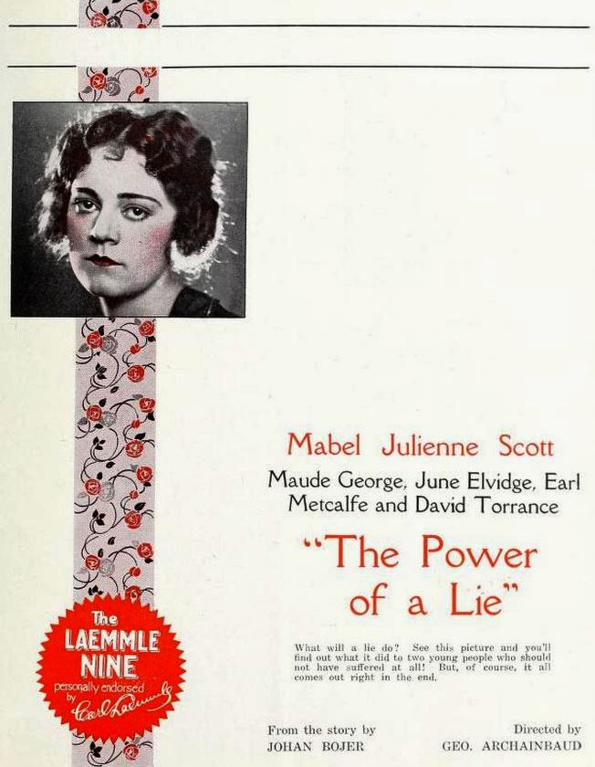 Ad for the American film The Power of a Lie (1922) with Mabel Julienne Scott, on page 29 of the December 2, 1922 Universal Weekly.